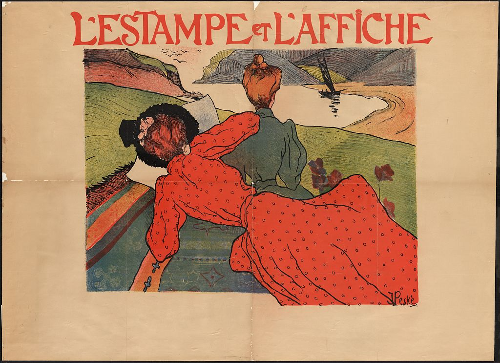 L'Estampe et l'Affiche. Poster for a magazine by French painter Jean Peské (1870-1949)